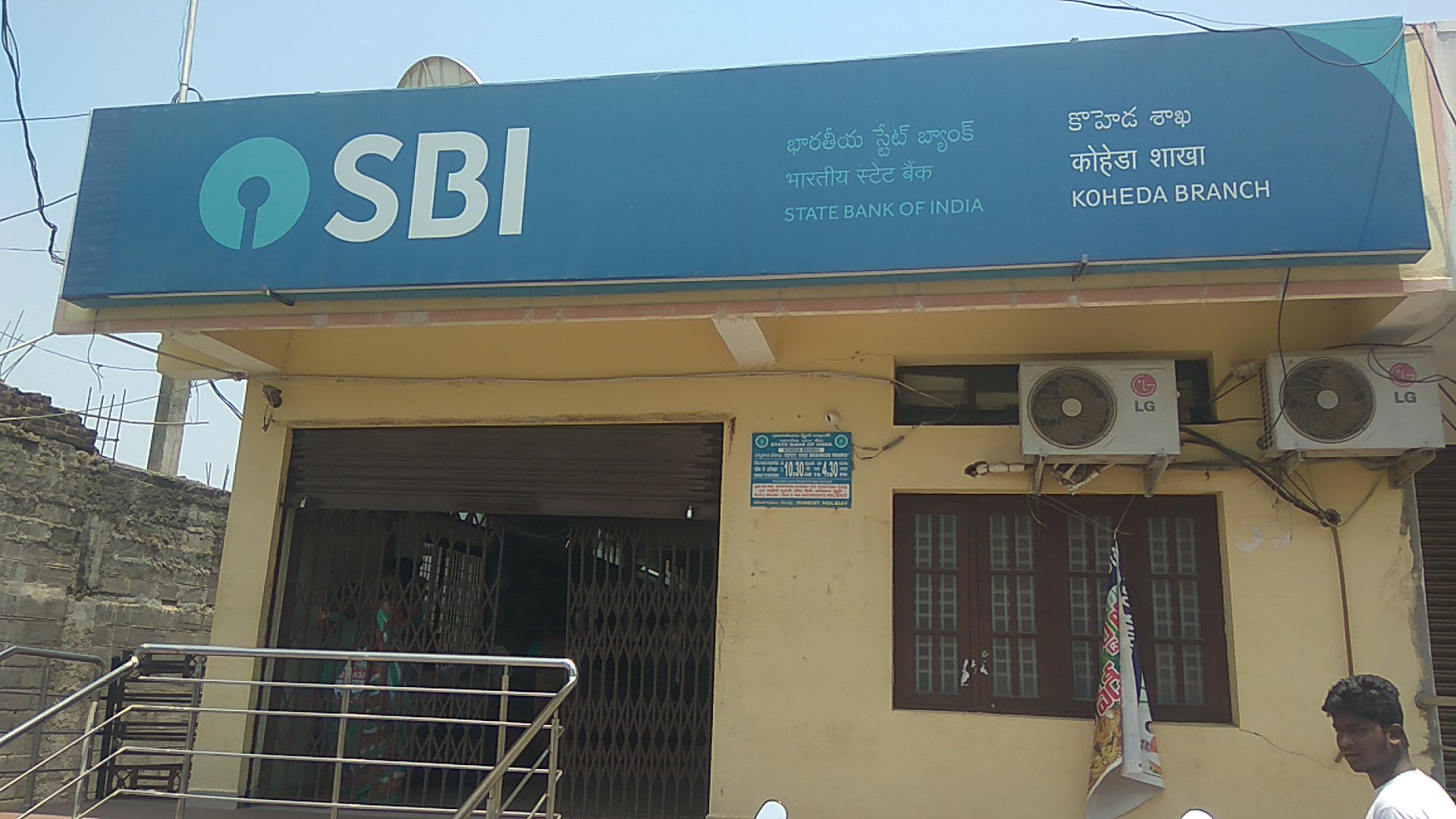 State Bank of India Bank in Koheda, Siddipet district